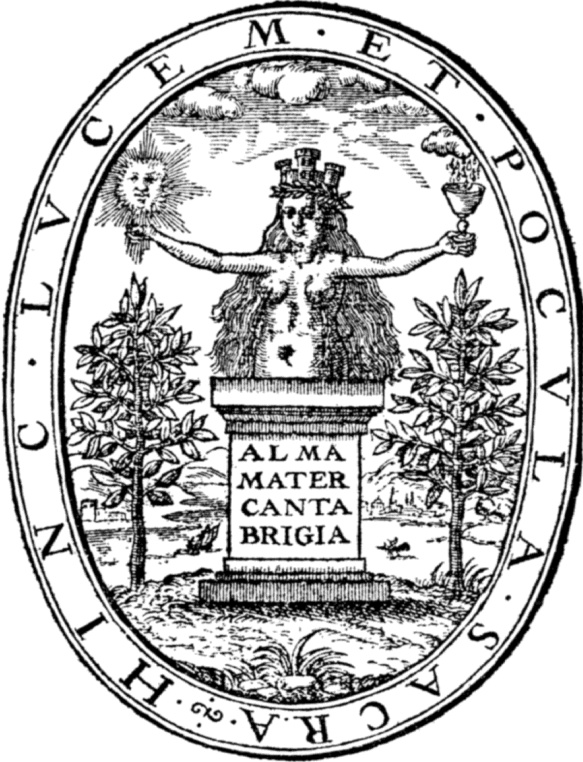 An Image of Alma Mater for a title-plate by John Legate, printer of the University of Cambrige. The central pedestal is inscribed with: Alma Mater Cambrigia and the motto Hince lucem et pocula sancra girdles the device. A description of the engraving from H.P. Stokes (1928): "From behind the pedestal rises a nude female figure, three-quarter length with flowing hair, crowned with a mural crown rising out of a wreath. In her right hand she holds a cup or chalice, receiving drops from a cloud; in her right hand she holds a sun radiated. On each side of the pedestal stands an olive tree; while in the background there is a river, with a sail boat on one side and a rowing boat on the other. Beyond under the sun is a castle, or a church; and under the chalice a town with spires and towers."